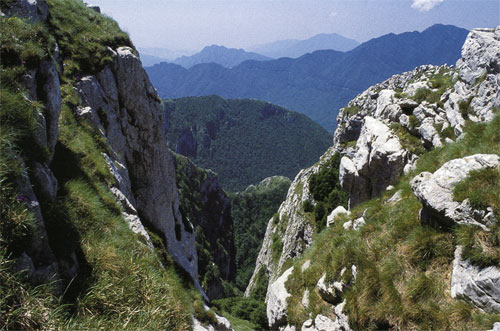 Picentini Mountains, near Salerno and Pontecagnano, Campania region, South Italy